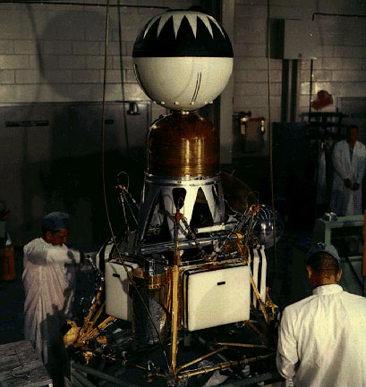 Ranger 4 Preparations Technicians prepare the Ranger 4 spacecraft for launch. An impact absorbing sphere made of balsa wood sits atop the spacecraft, painted with a saw-tooth pattern to maintain thermal balance during its mission to the Moon. The sphere contained a lunar seismometer, which was to rough land just south of the equator on the rim of the Ocean of Storms and measure "lunarquakes." The master clock in Ranger 4's computer failed during flight and the spacecraft did not respond to commands. It crashed into the far side of the Moon on April 26, 1962. Despite the failure to return information, the use of balsa wood was an important precursor in the design of other rough landings on extraterrestrial bodies, particularly Mars. Aerobraking, gliding, impact absorption, parachuting, and retro rockets have all been considered.